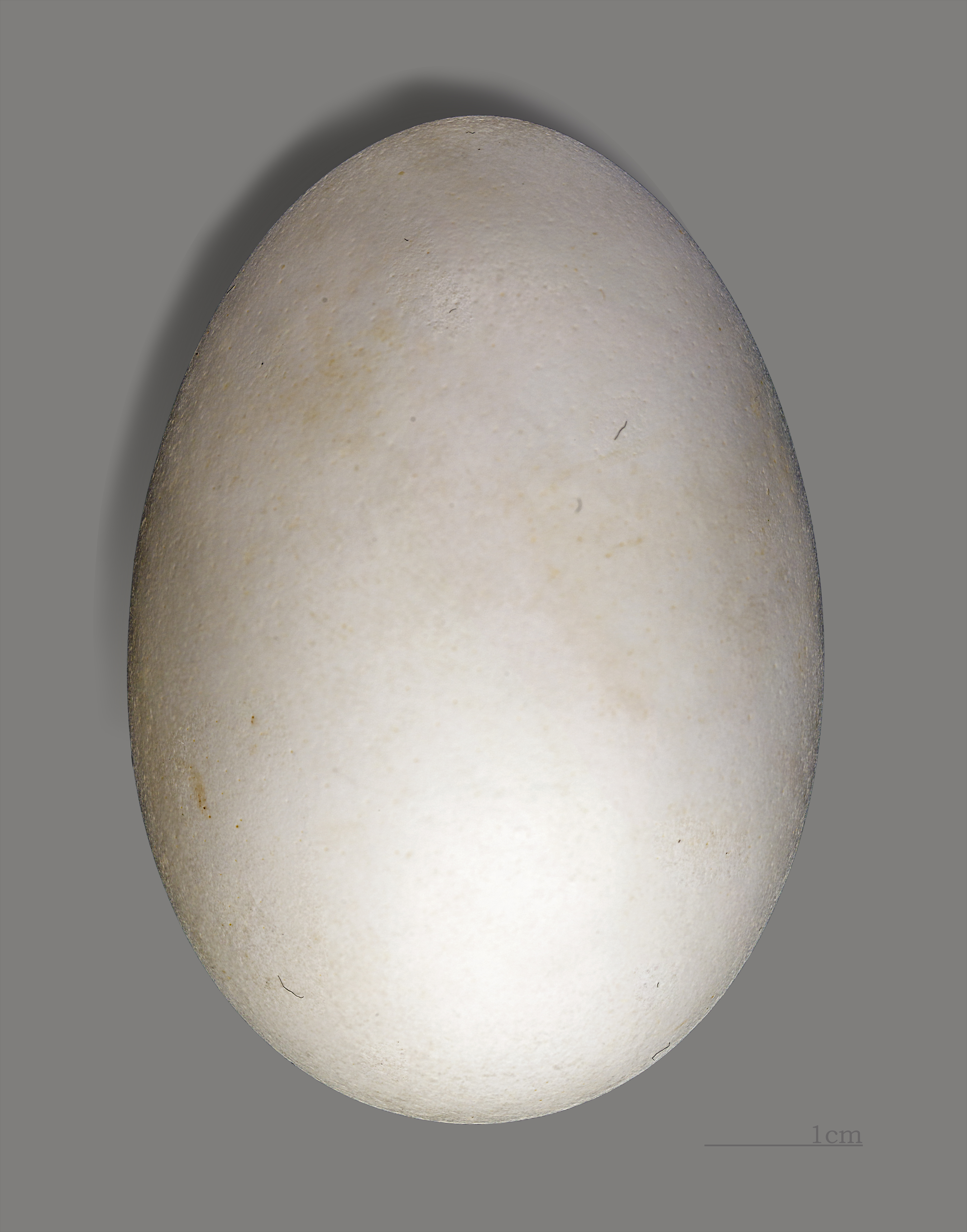 Egg of Wedge-tailed shearwater. Collection of René de Naurois /Jacques Perrin de Brichambaut.